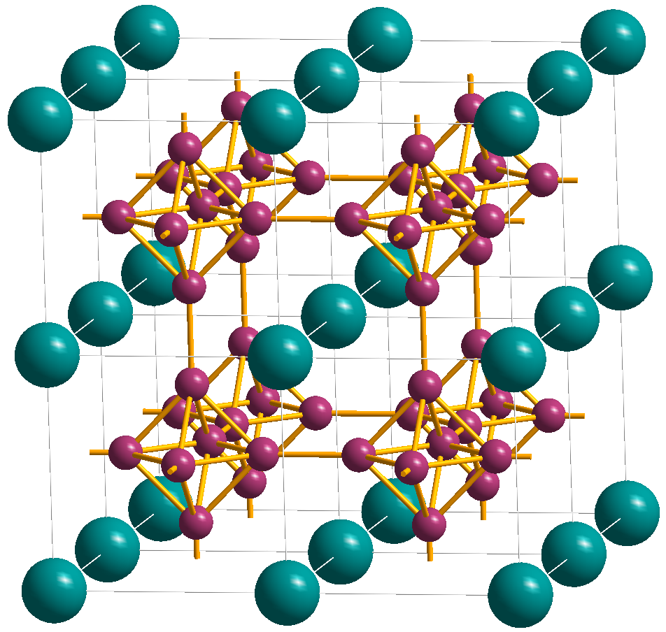 Structure of CaB6 (common to most hexaborides); borons are red, bonding depiction is naive. Journal = JOURNAL OF SOLID STATE CHEMISTRY Year = 1970 Volume = 2 Page = 332-342 Title = Structure Electronique de Quelques Hexaborures de Type CaB6 Authors = Etourneau J., Mercurio J.P., Naslain R., Hagenmuller P.